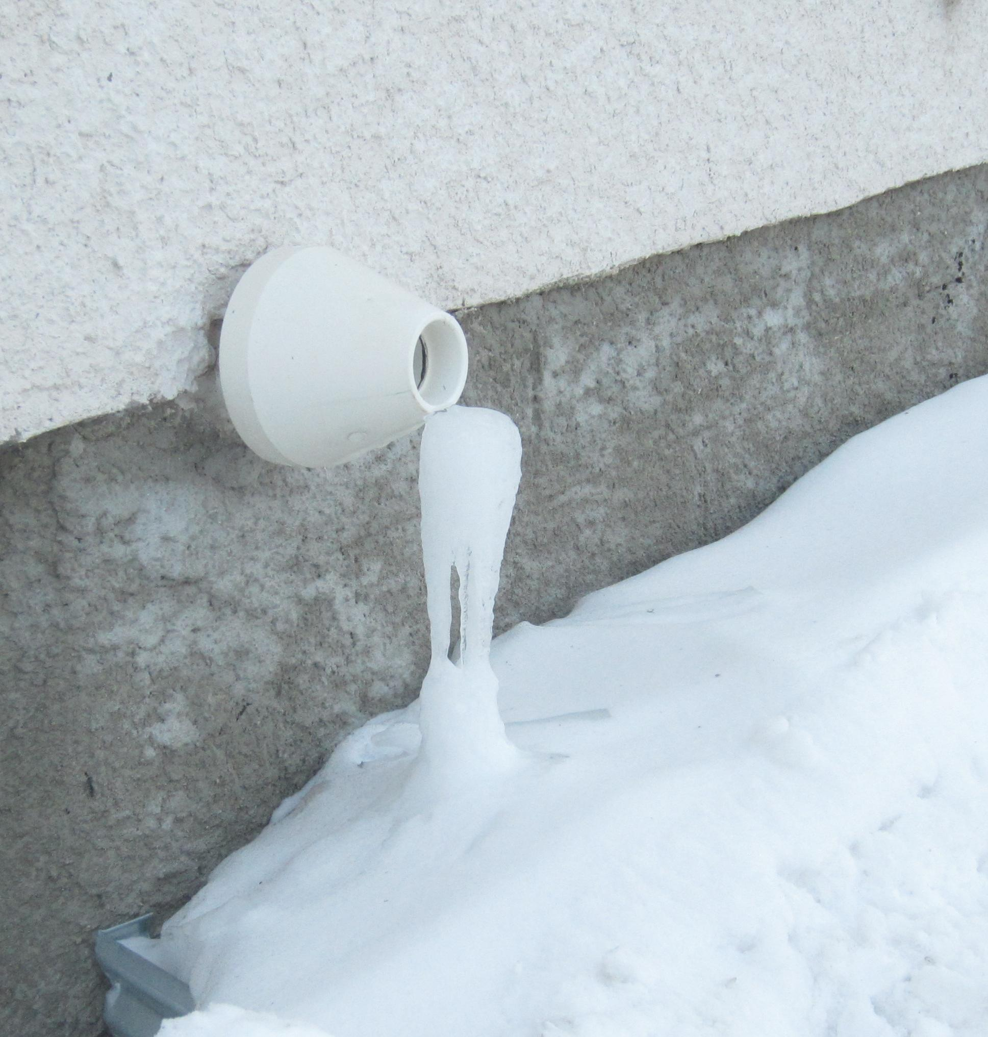 Plastic outlet for a condensing natural gas hot air furnace. The furnace has a second heat exchanger to recover the latent heat of the water vapor in the exhaust gases. The gases are then cool enough to vent through plastic pipe. Not all the water vapor is condensed; some freezes at the outlet. This vent contains a coaxial combustion air inlet pipe. Blowing snow can block the pipe, but the furnace control can detect this condition and prevent the burner from starting. Taken on a mild January day in Winnipeg, though the temperature had hit -30 C the previous week.